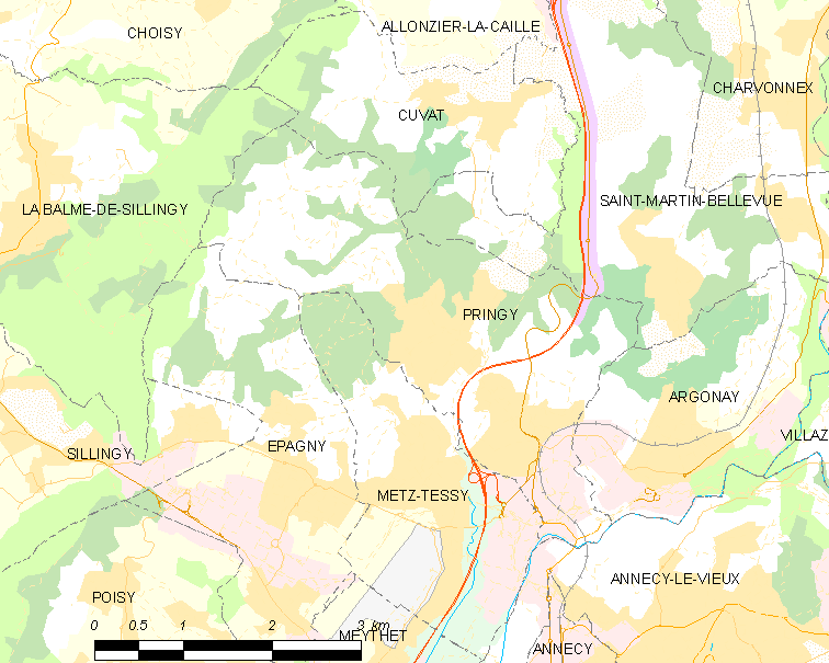 Map of French municipality Pringy